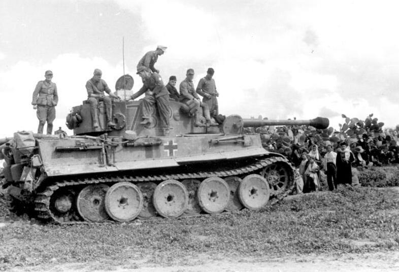 Information added by Wikimedia users.Schwere Panzer-Abteilung 504 (Size and style of number on turret, located in Tunisia)[1]